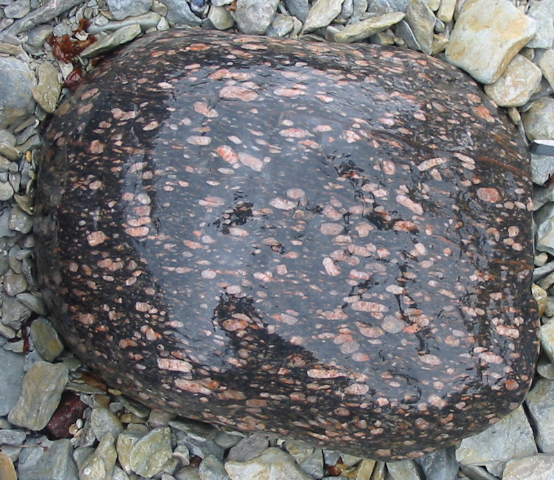 Photo is made in Estonia. Rock sample is surrounded by limestone shingles, red porphyroblasts are K-feldspar. Rock's diameter is approximately 30 cm.